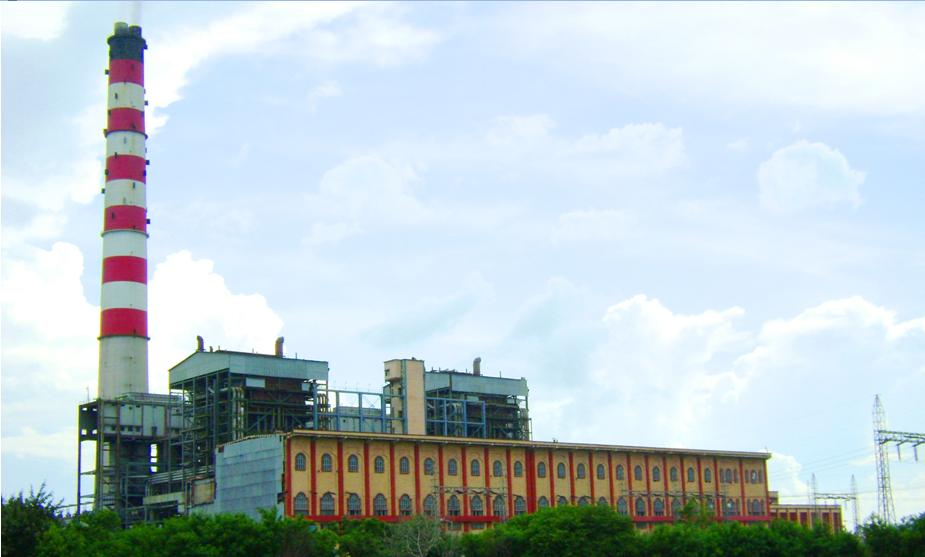 2 x 210 mw Thermal Power Plant of OPGC located at Banharpali village in Jharsuguda district of Odisha State in India